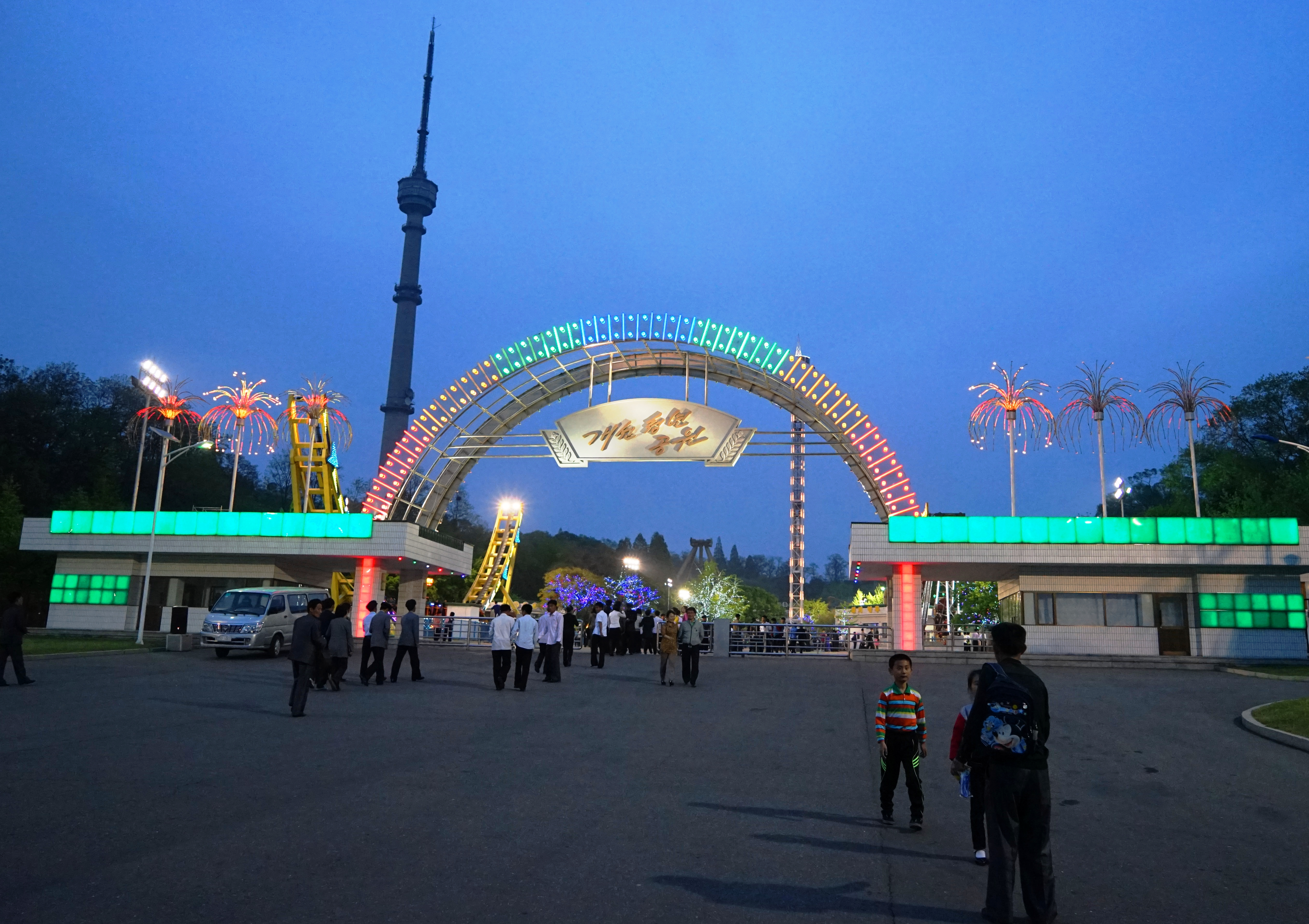 Kaeson chongnyon park, Pyongyang, North Korea